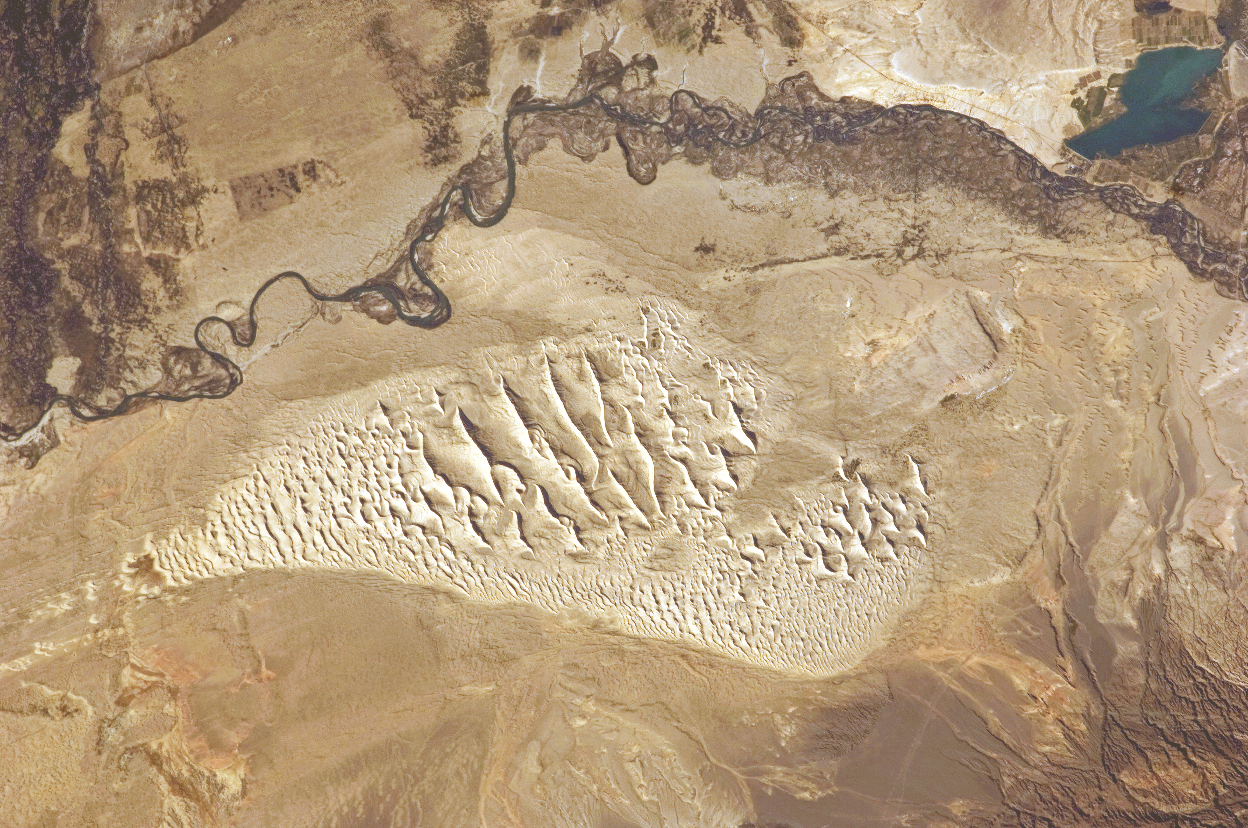 This photograph taken by an astronaut on the International Space Station highlights a sand dune field within the Burqin-Haba River-Jimunai Desert near the borders of China, Mongolia, Russia, and Kazakhstan. The dune field (approximately 32 kilometres long) is located immediately west-northwest of the city of Burqin (not shown), and is part of the Junggar Basin, a region of active petroleum production in north-western China. The Irtysh River—with associated wetlands and riparian vegetation (appearing grey-green in the image) —flows from its headwaters in the Altay Mountains towards Siberia (right to left across the image). Tan, linear dunes at image centre (on the south side of the Irtysh River) dominate the view. The dunes are formed from mobile barchan (crescent-shaped) dunes moving from left to right in this view. The barchans eventually merge to form the large, linear dunes which can reach 50 to 100 meters in height. Sand moving along the southern edge of the field appears to be feeding a south-eastern lobe with a separate population of linear dunes (image lower right). The Burqin-Haba River-Jimunai Desert area also includes darker gravel-covered surfaces that form pavements known locally as gobi. At the resolution of an astronaut photograph, these are somewhat indistinguishable from the vegetated areas arresting some of the dunes. But gobi tend to be located on the flat regions between the dunes.